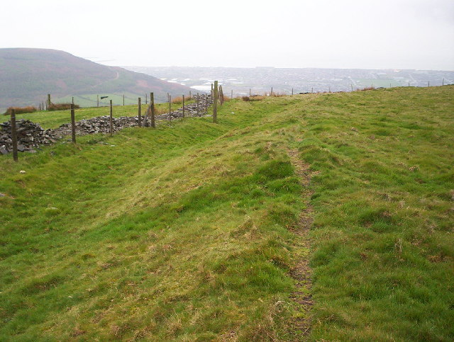 Buarth y Gaer Iron Age Hill Fort. Buarth y Gaer Iron Age Hill Fort with Port Talbot on the distance.